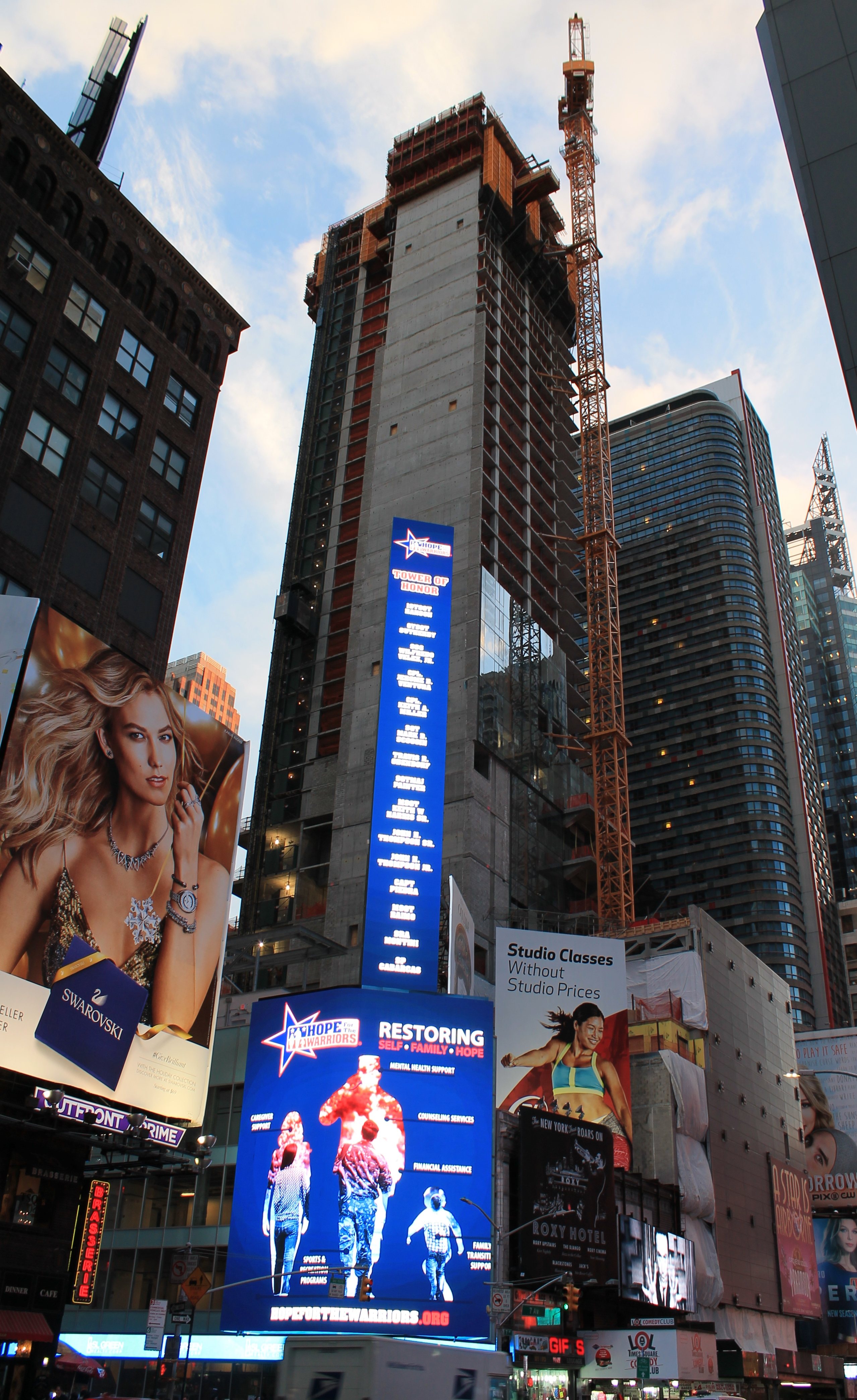 Construction progress on 20 Times Square, 8 February 2017.